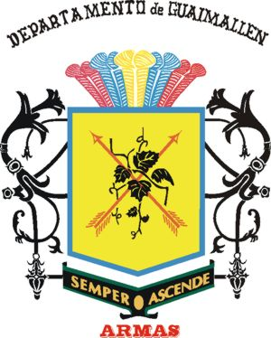 Coat of arms of Guaymallén, a city in Mendoza Province of Argentina.